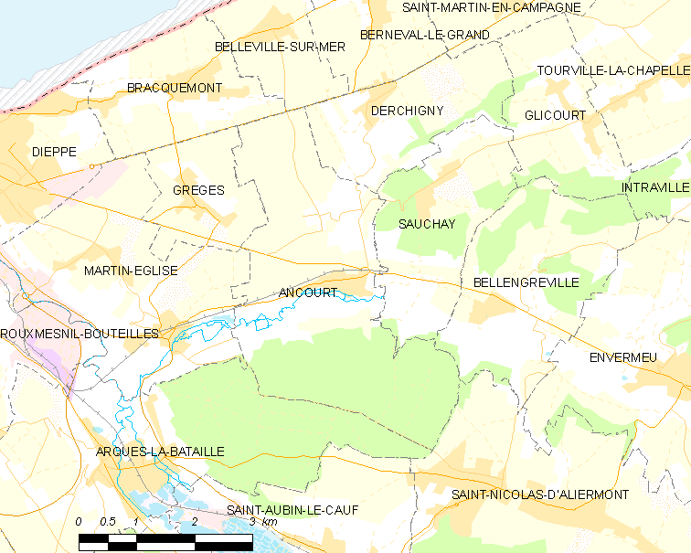 Map of French municipality Ancourt